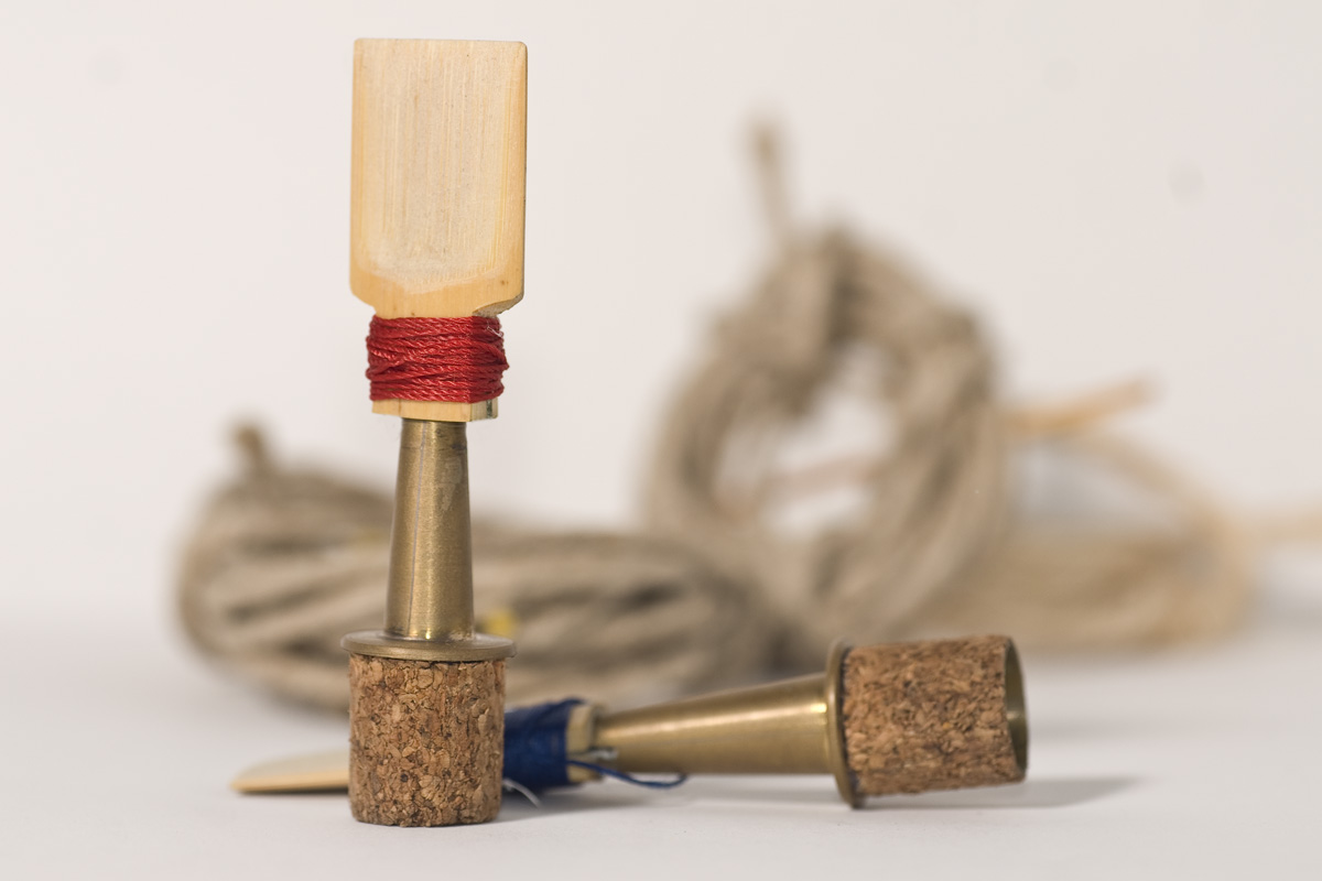 Fat "Canya o inxa". It's an instrumental part of the "gralla" builded with cane and formed by two pieces attached to each other with string. Its function is to conduct the air to create a primary sound.